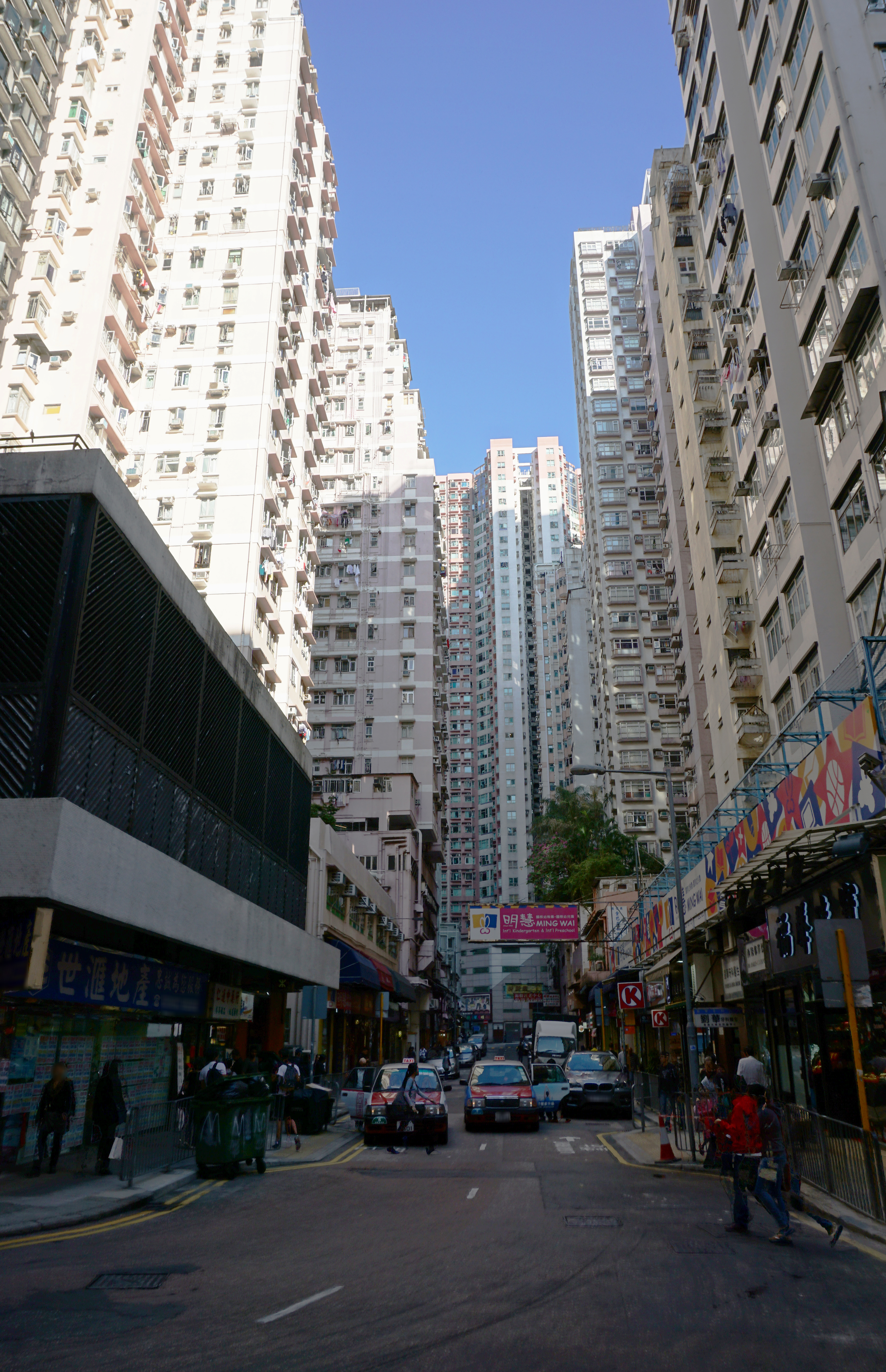 Tsat Tsz Mui Road in North Point, Hong Kong.